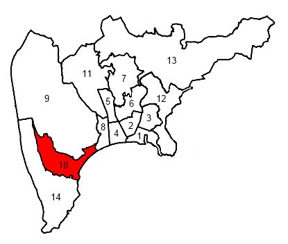 Location of canton of Nice-10 in the city of Nice, Alpes-Maritimes, France.